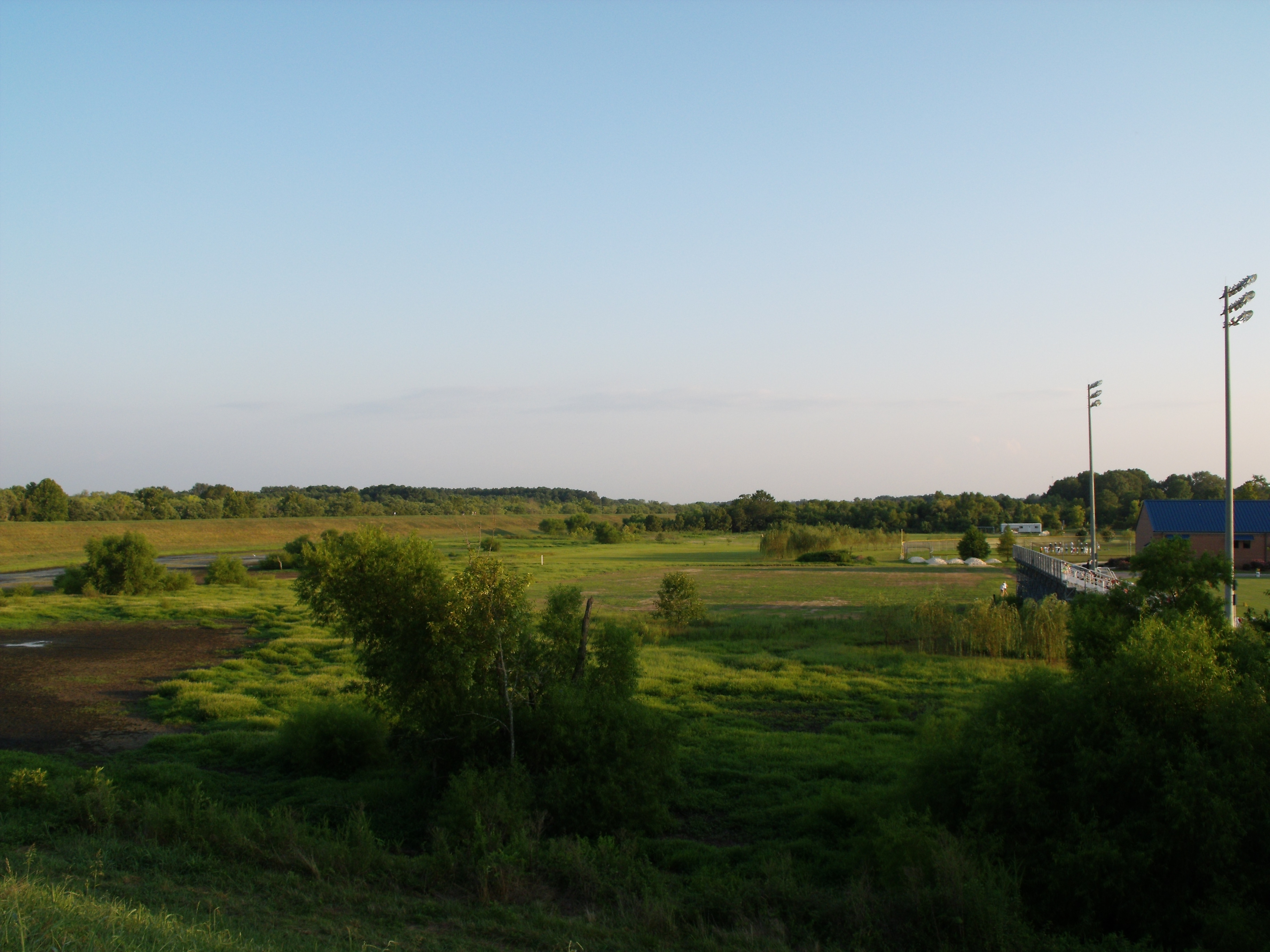 View of the levee surrounding the side and rear of Boyd-Buchanan School, Chattanooga, Tennessee.